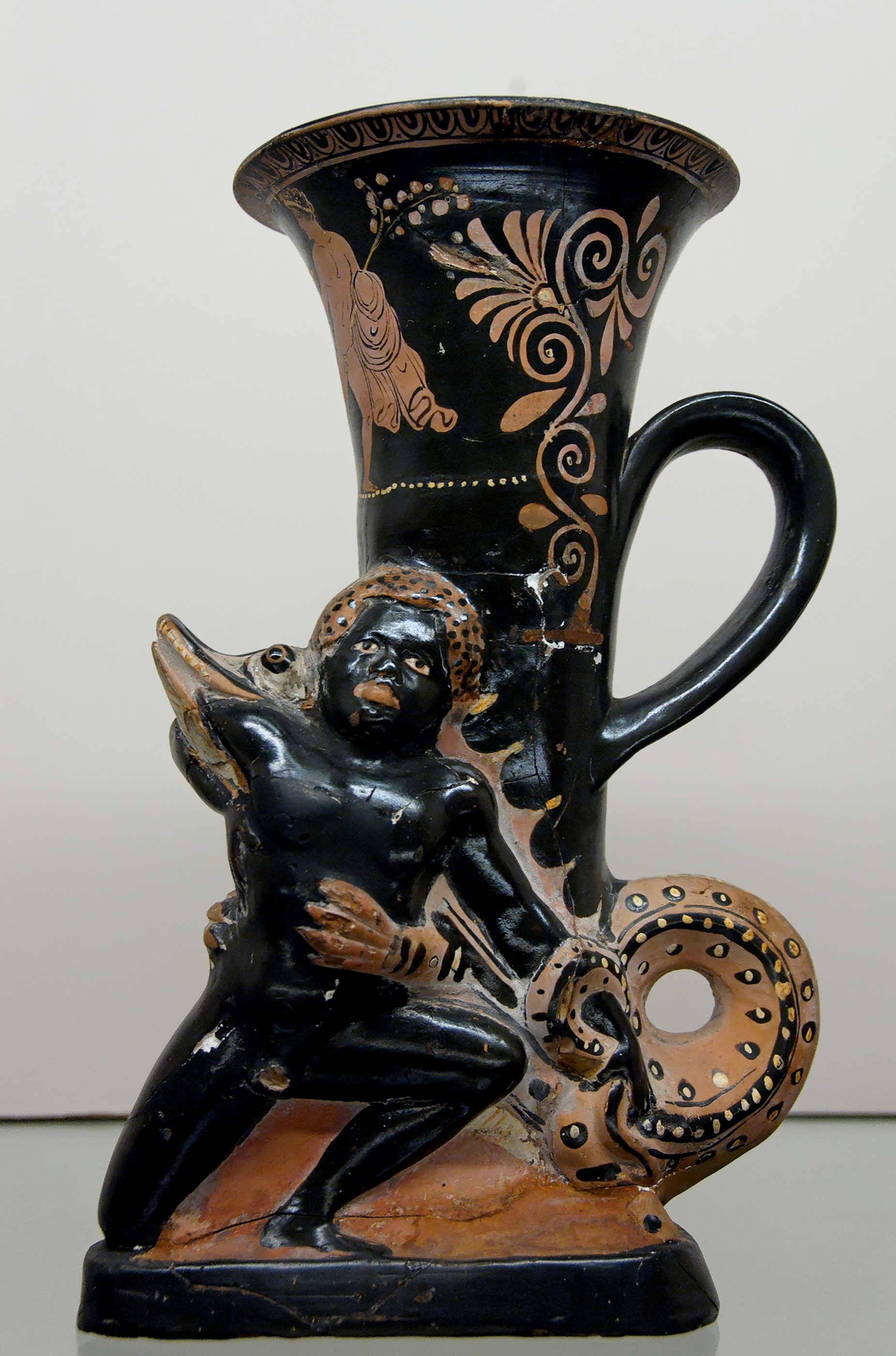 Crocodile devouring an African boy. Apulian red-figured plastic rhyton, ca. 340 BC. From Capua.